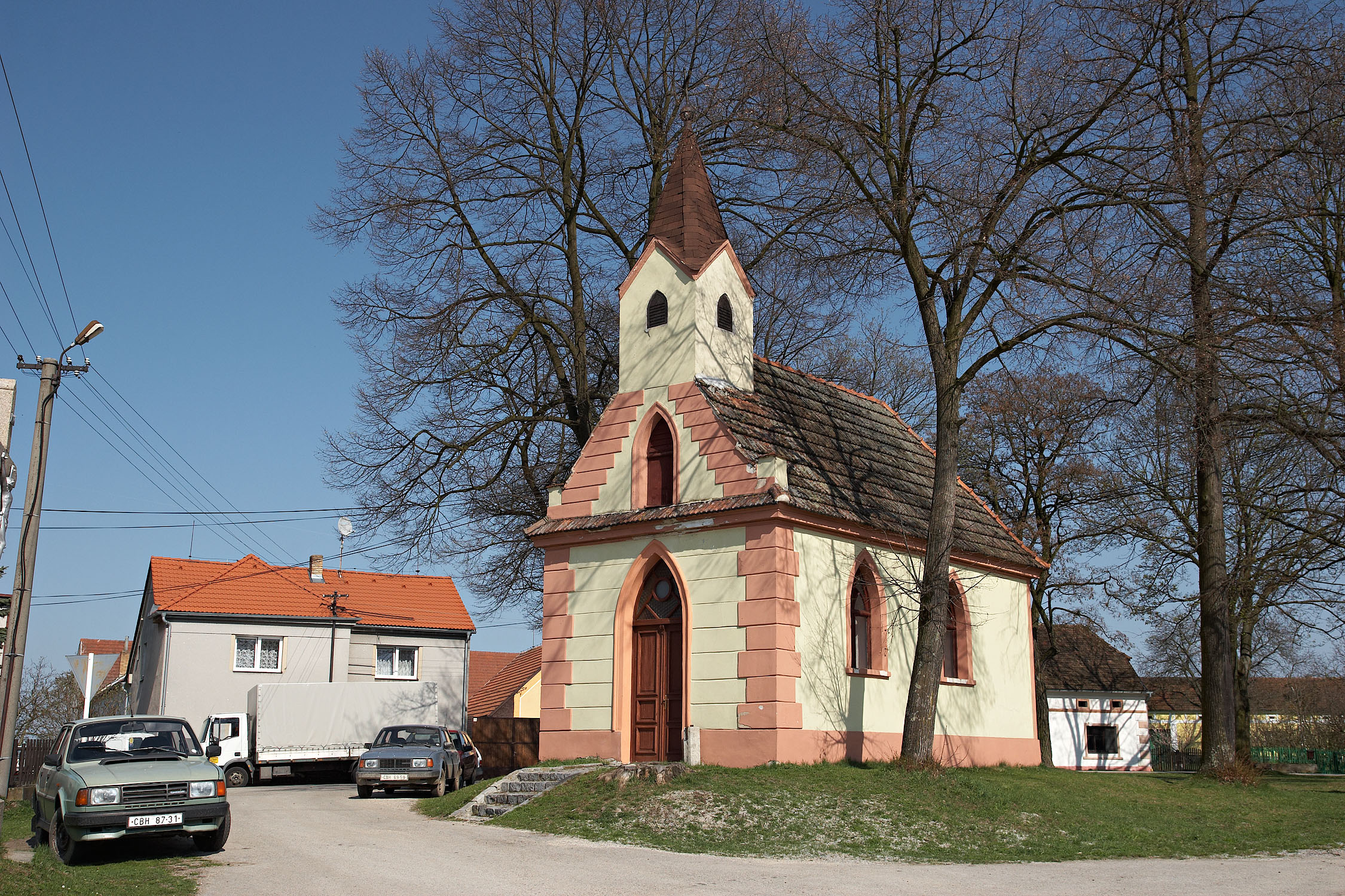 Něchov - chapel in the village